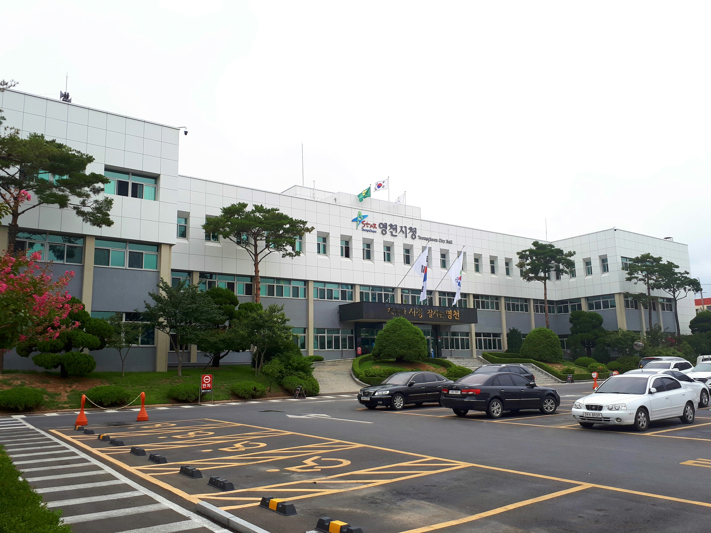 Yeongcheon city hall, Gyeongsangbuk-do